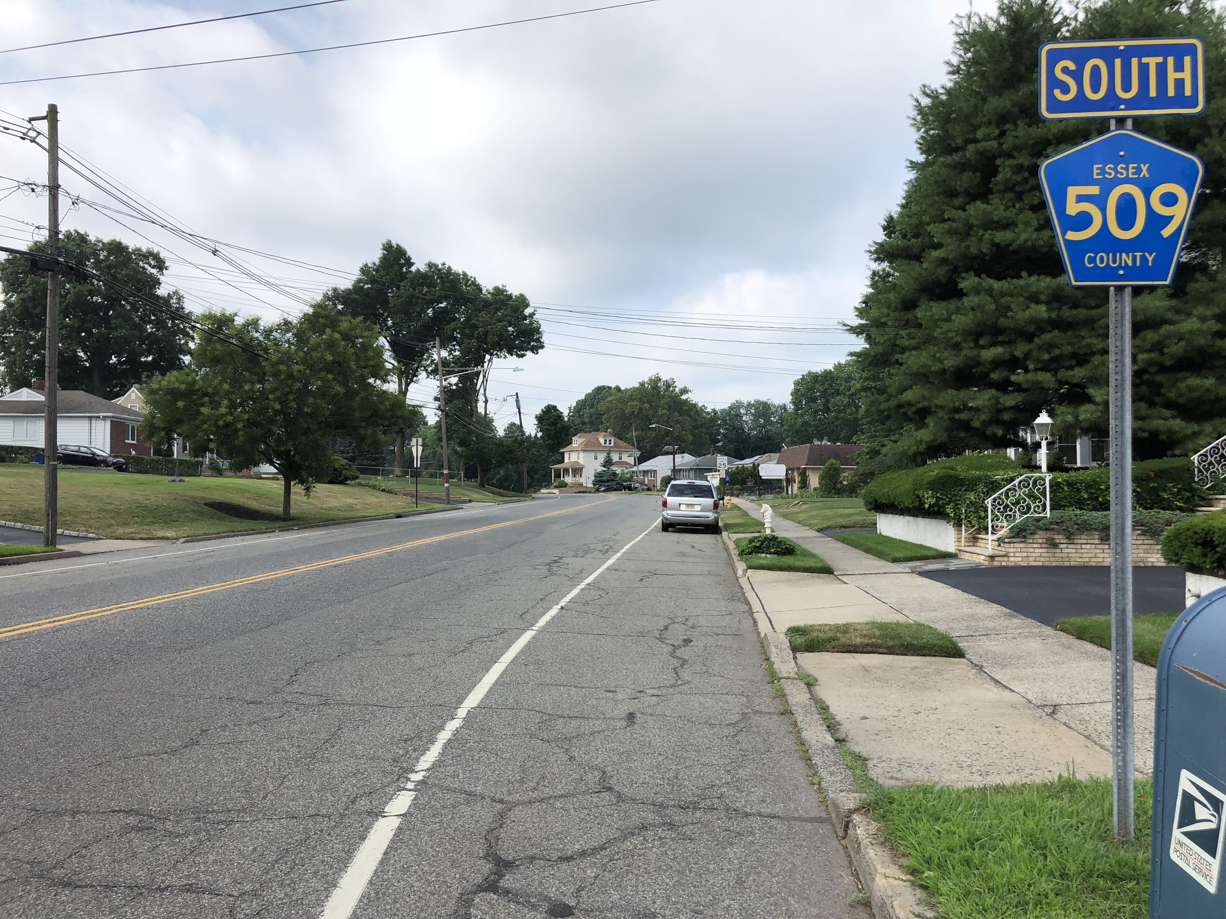 View south along Essex County Route 509 (Broad Street) just south of Essex County Route 643 (Alexander Avenue) in Bloomfield Township, Essex County, New Jersey